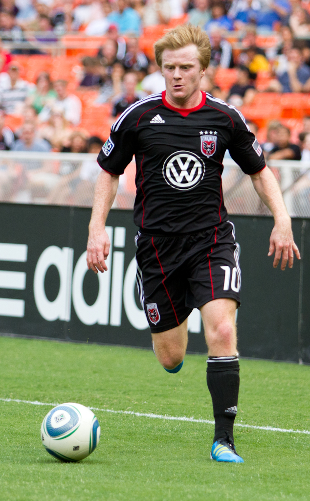 D.C. United midfielder, Dax McCarty dribbles the ball during a match vs Houston Dynamo June 25, 2011 RFK Stadium, Washington, DC